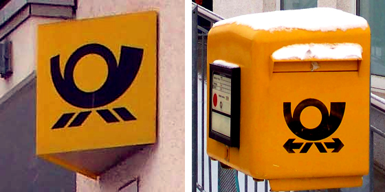 A crop of two sections of File:Posthorn_alt-neu.jpg by User:Kandschwar, highlighting the two post horn graphics in the photo